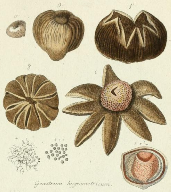 Geastrum hygrometricus (valid synonym : Astraeus hygrometricus)